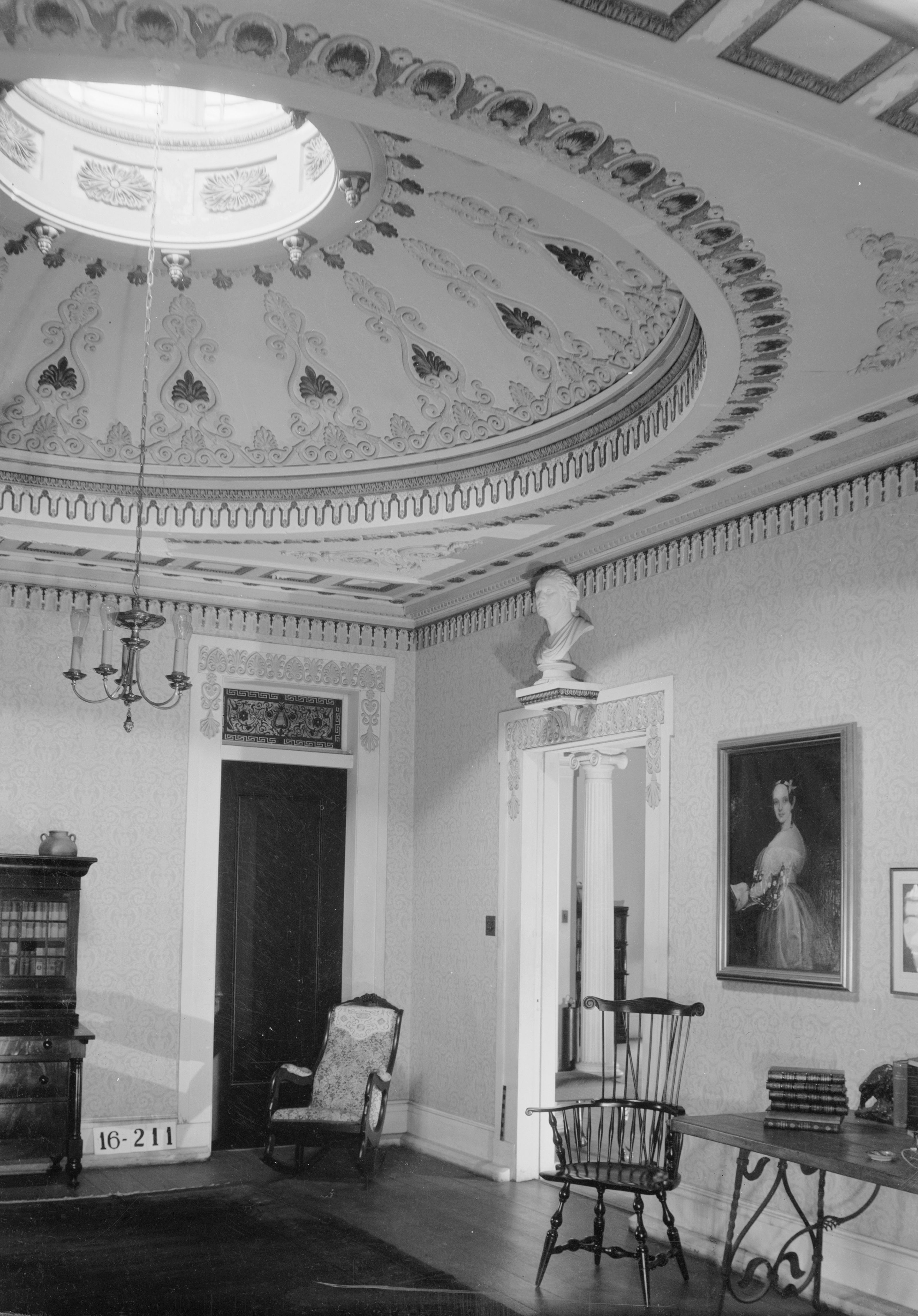 Gaineswood, 805 South Cedar Street, Demopolis, Marengo County, AL Library northwest corner and domed ceiling.